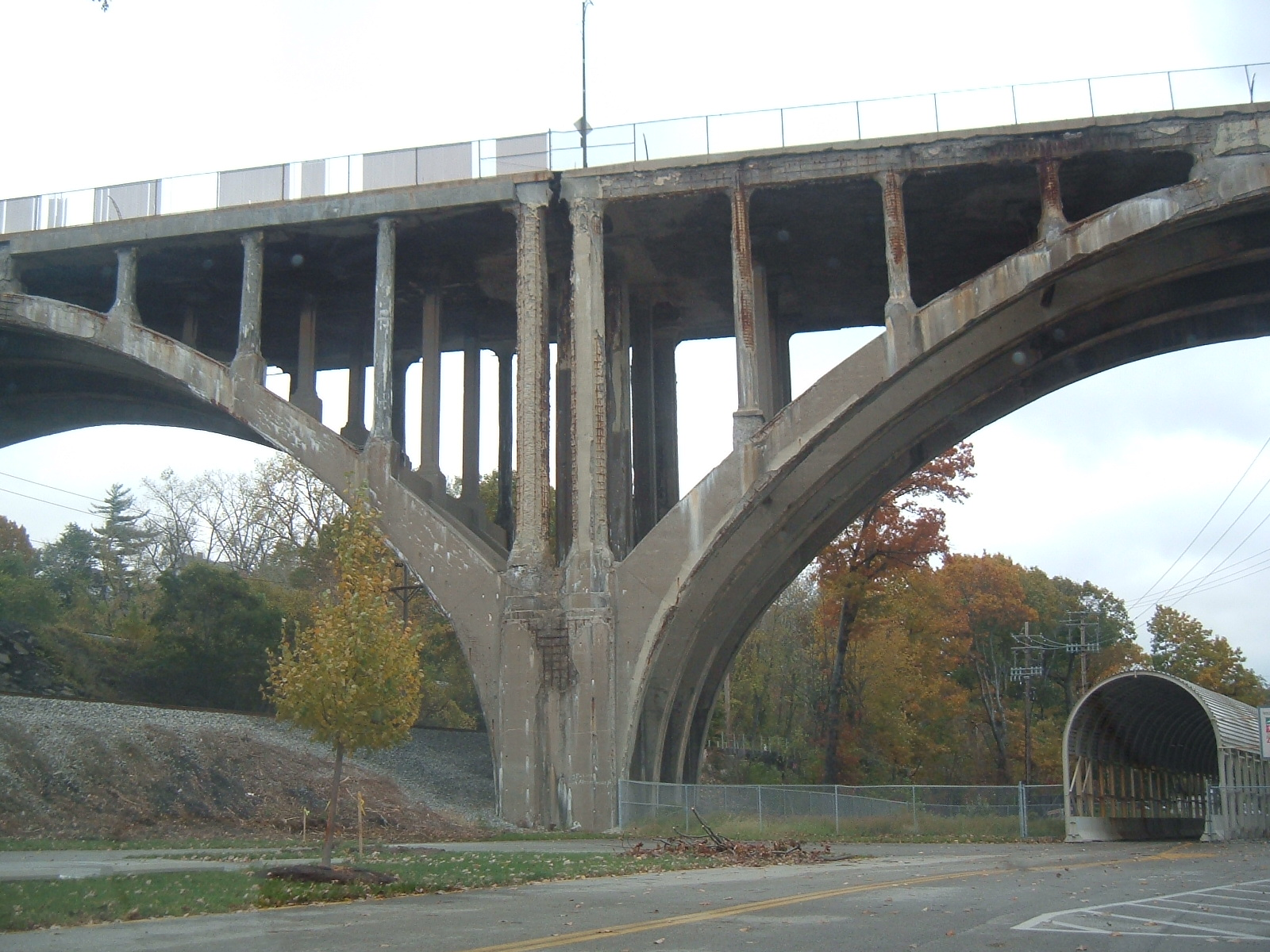 Fulton Road Bridge. Author - Kevin Timm (BrownsFanForLife)